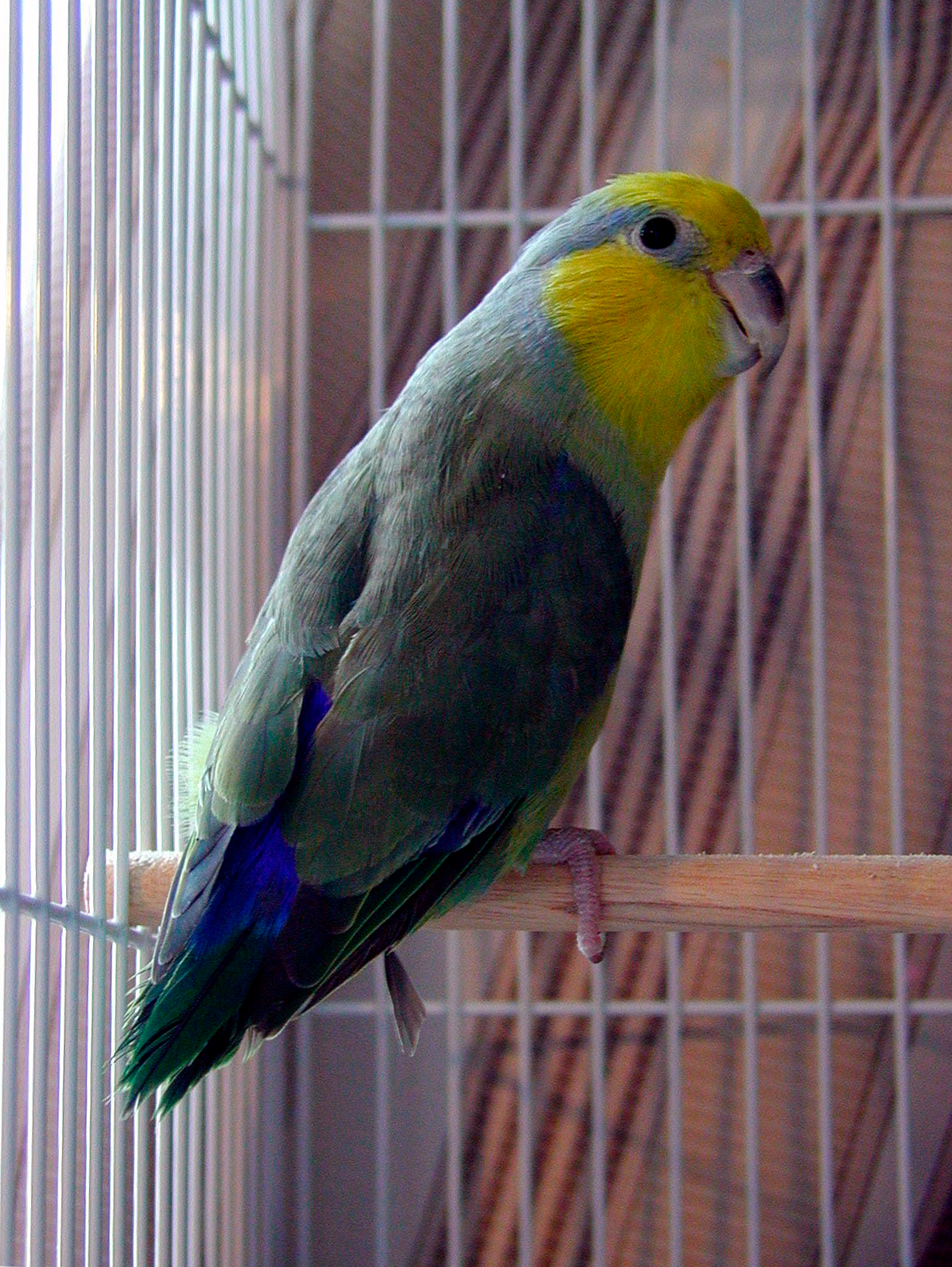 An adult Yellow-faced Parrotlet photographed at the 2002 AFA convention in Tampa, Florida, USA.